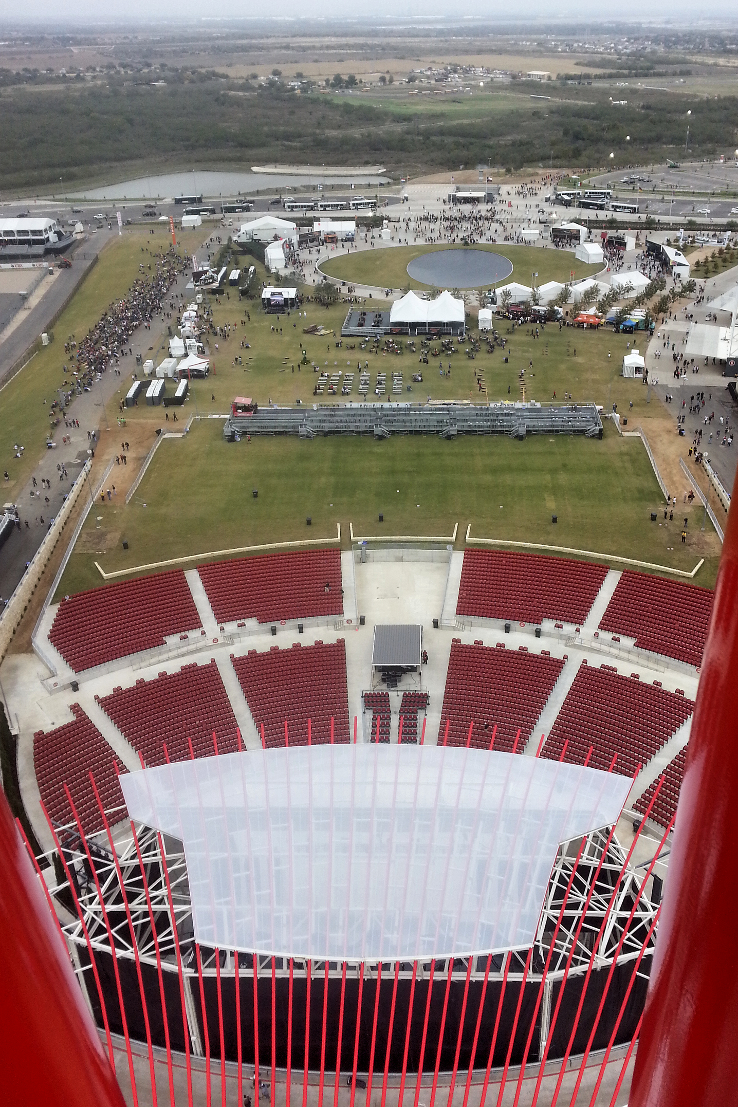 The Austin360 Amphitheater as seen from the top of the tower at Circuit of the Americas near Austin, Texas, United States.